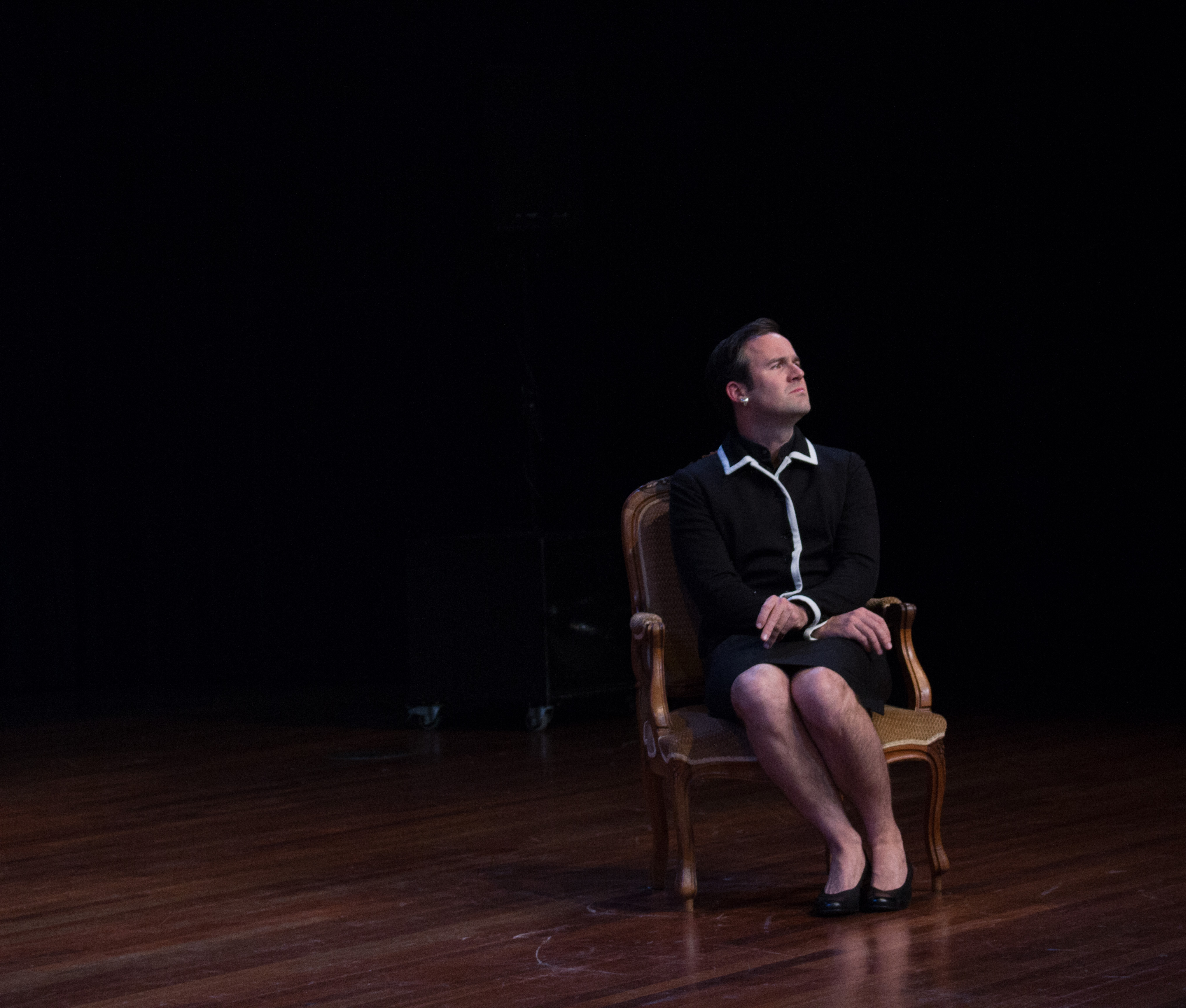 mugmetdegoudentand at Brainwash Festivaal 2015